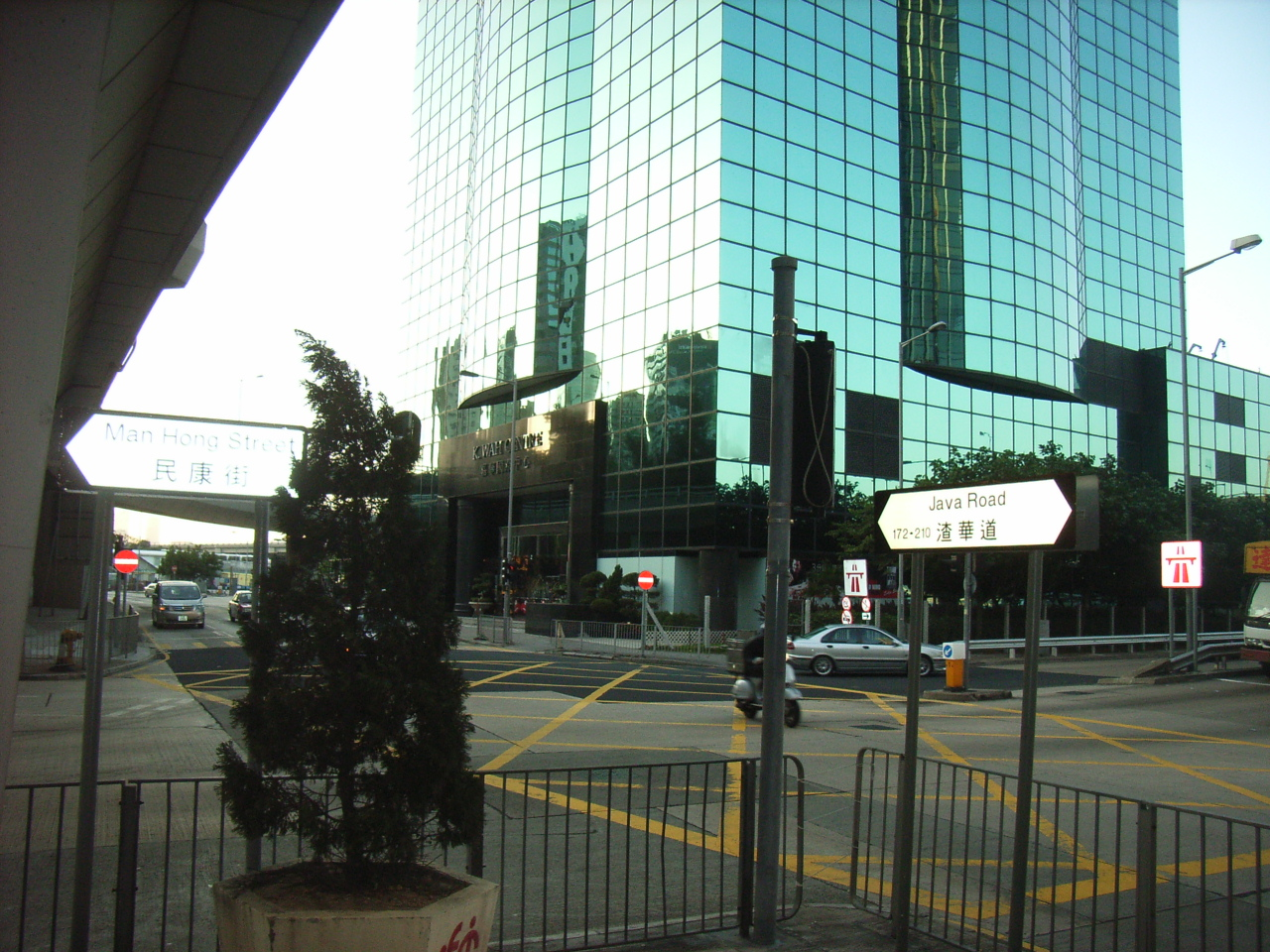 Ka Wah Centre, Java Road, North Point, Hong Kong Photographer is User:Huang Kong Hing